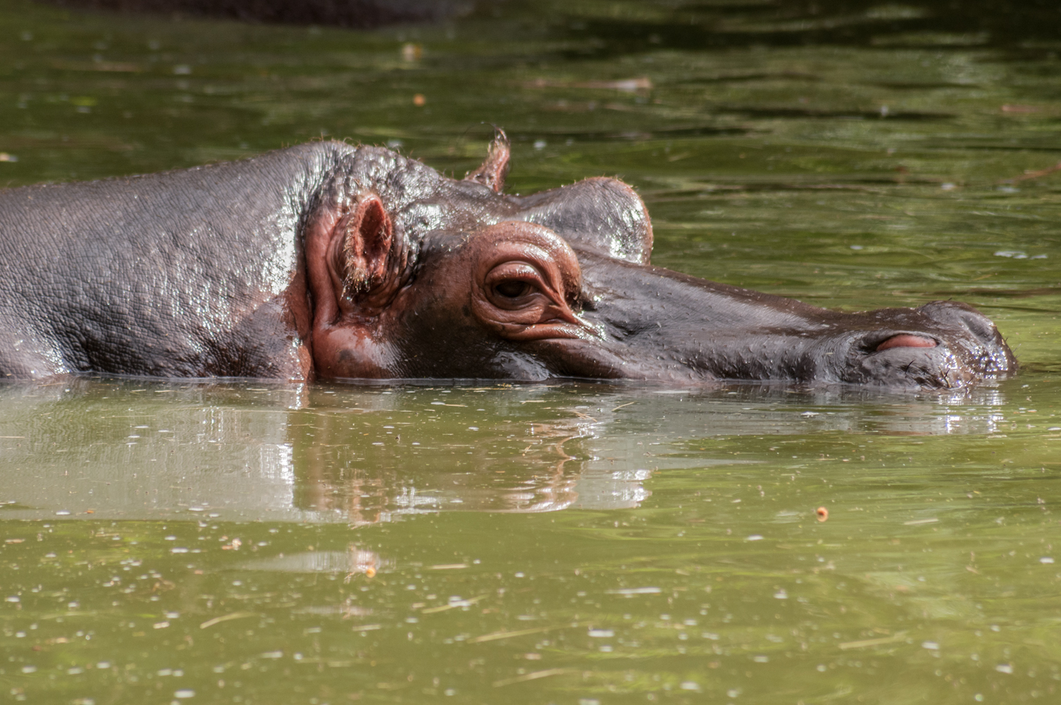 Hippopotamus amphibius from Venezuela